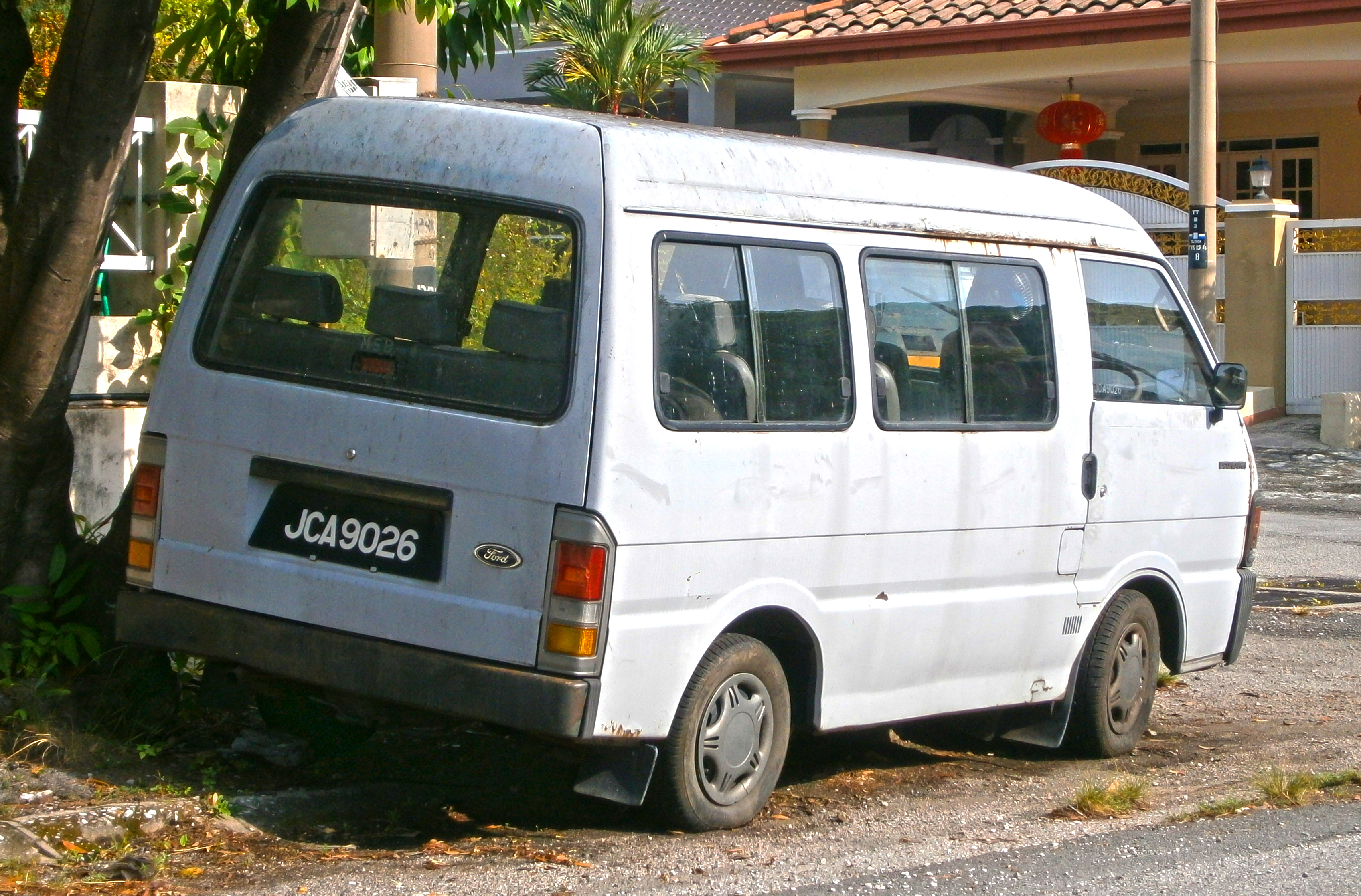 1990 Ford Econovan SWB window van (modified)